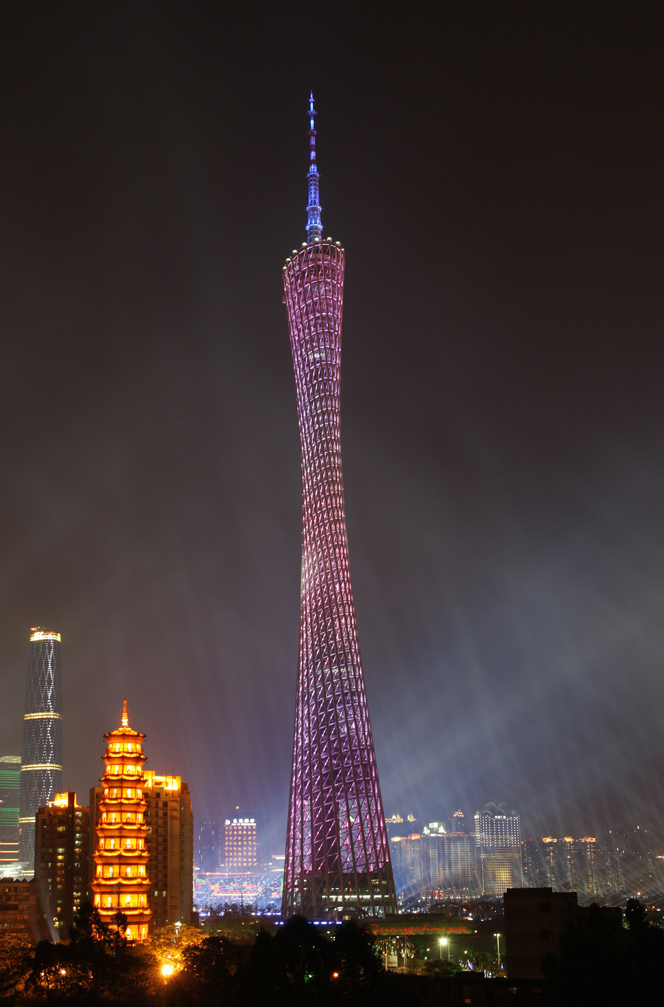 Canton tower in asian games opening ceremony